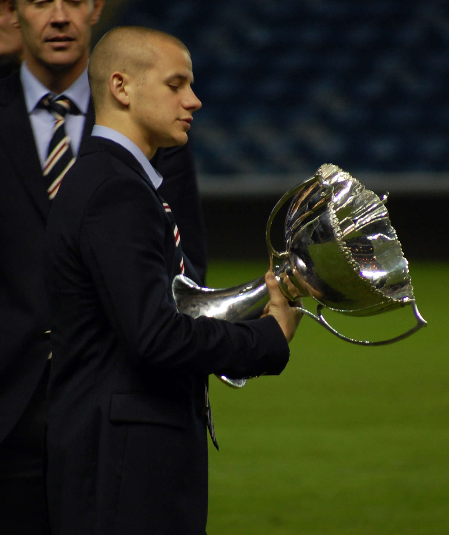 vladimir weiss holding the CIS cup